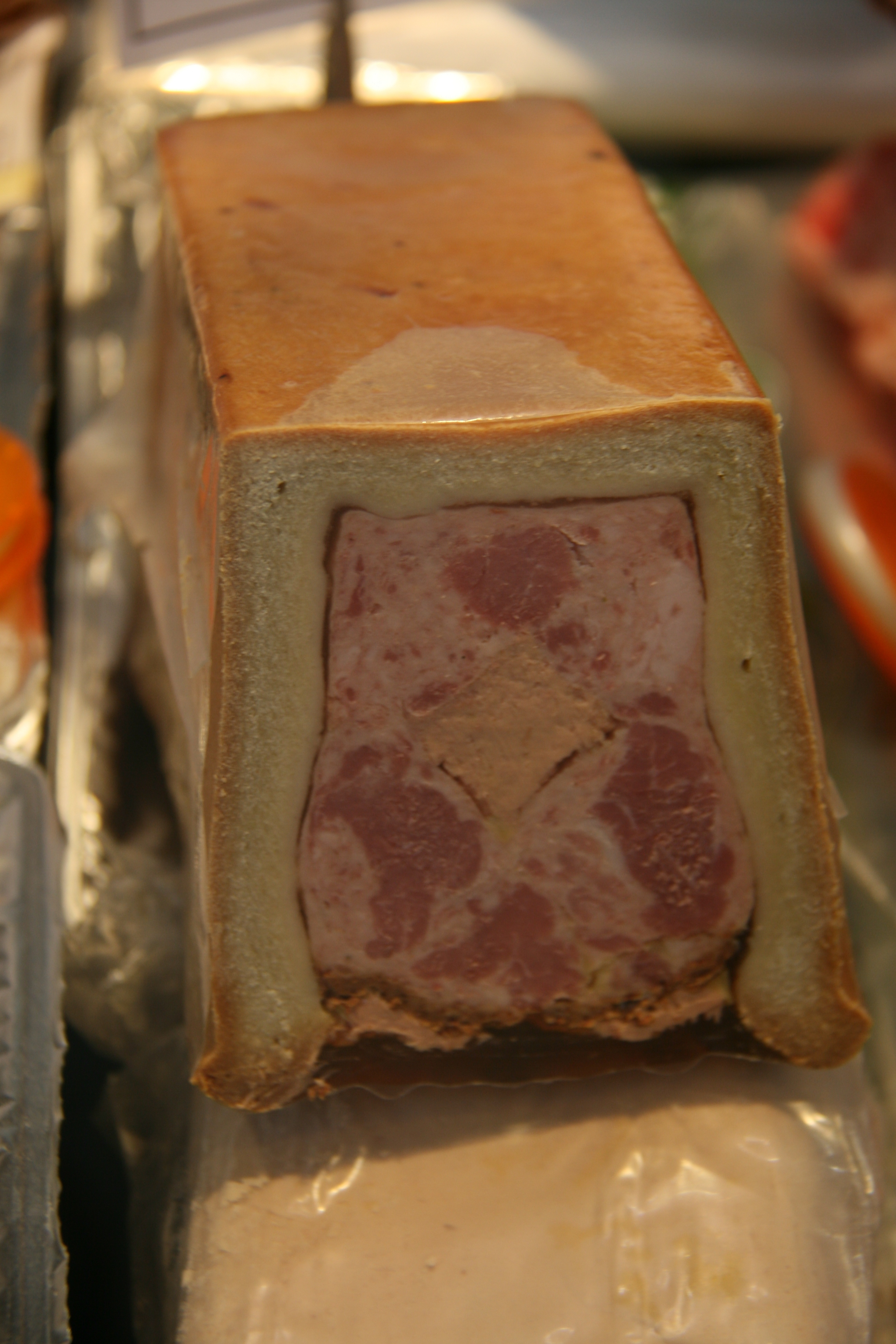 Pate en Croute in a French shop